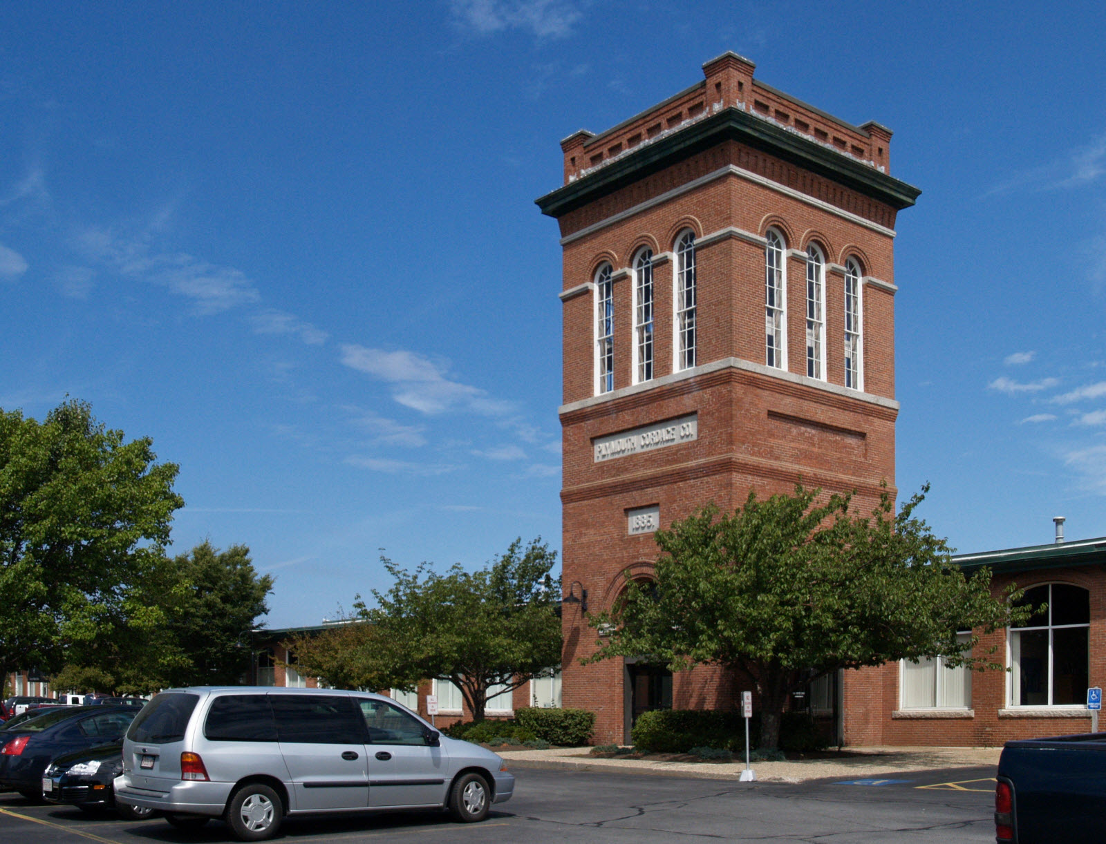 Cordage Commerce Park, North Plymouth, Massachusetts